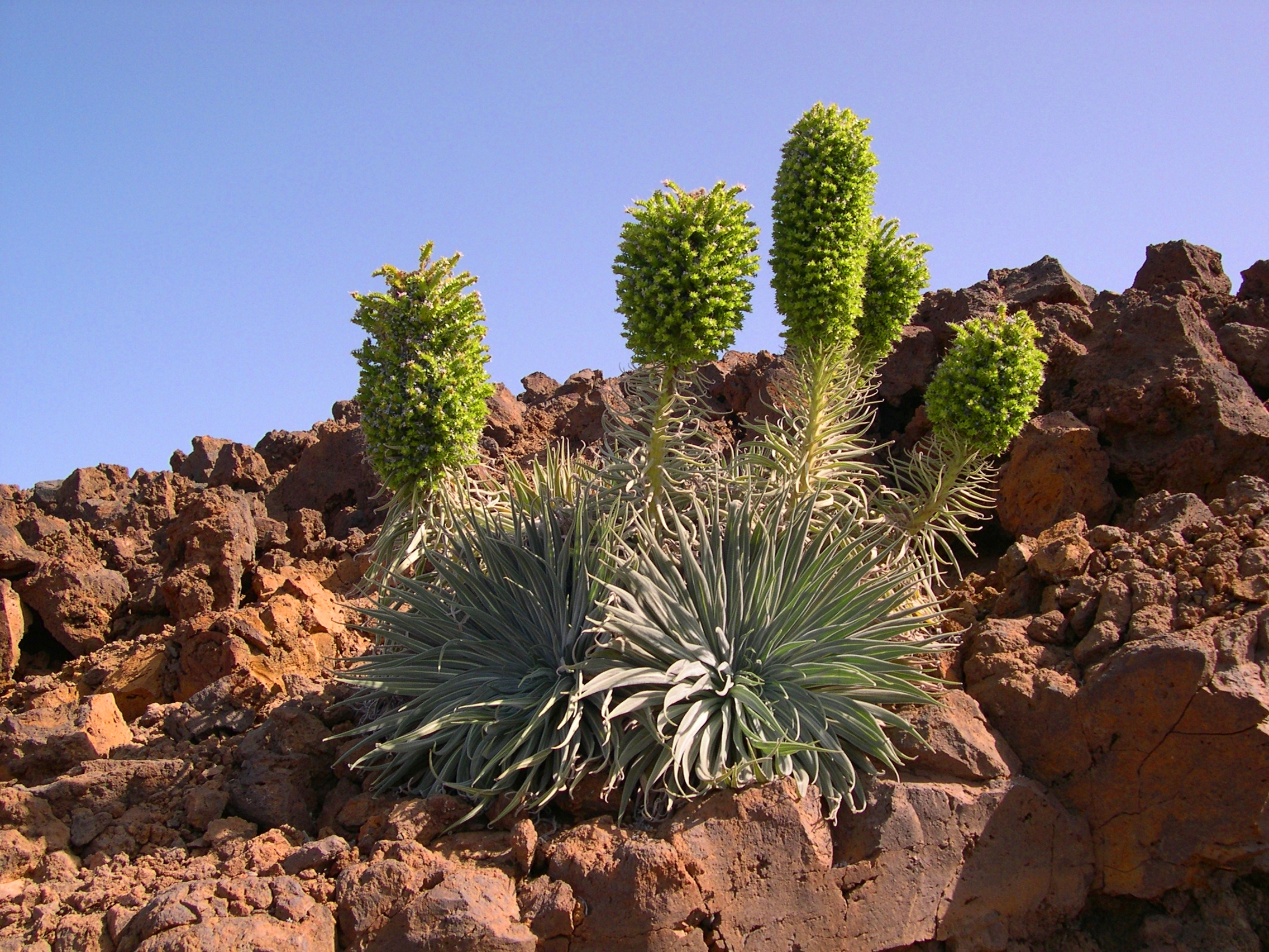 Name Echium spec. Genus Echium Family Boraginaceae La Palma 2400M alt